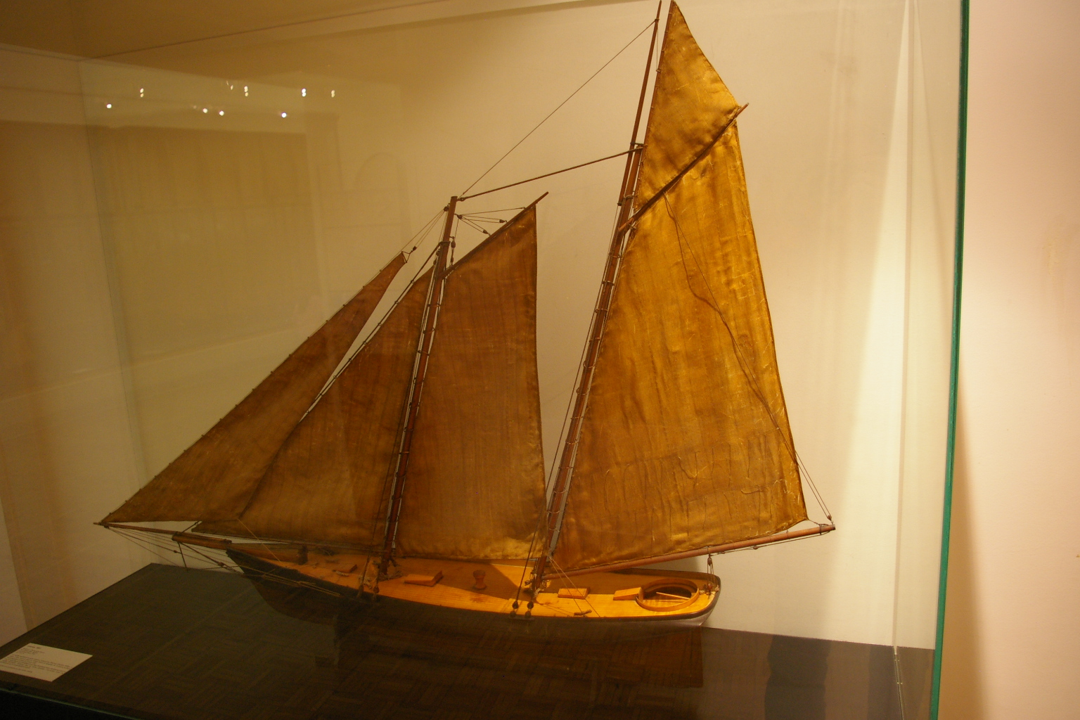 Model of the America Yacht, First winner of america's cup. Paris Maritime museum